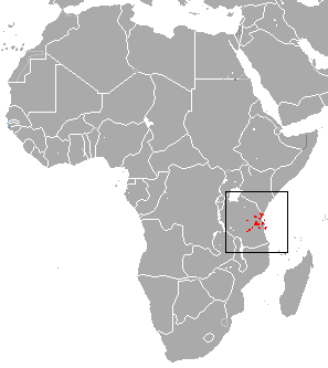 Zanzibar Bushbaby (Paragalago zanzibaricus) range